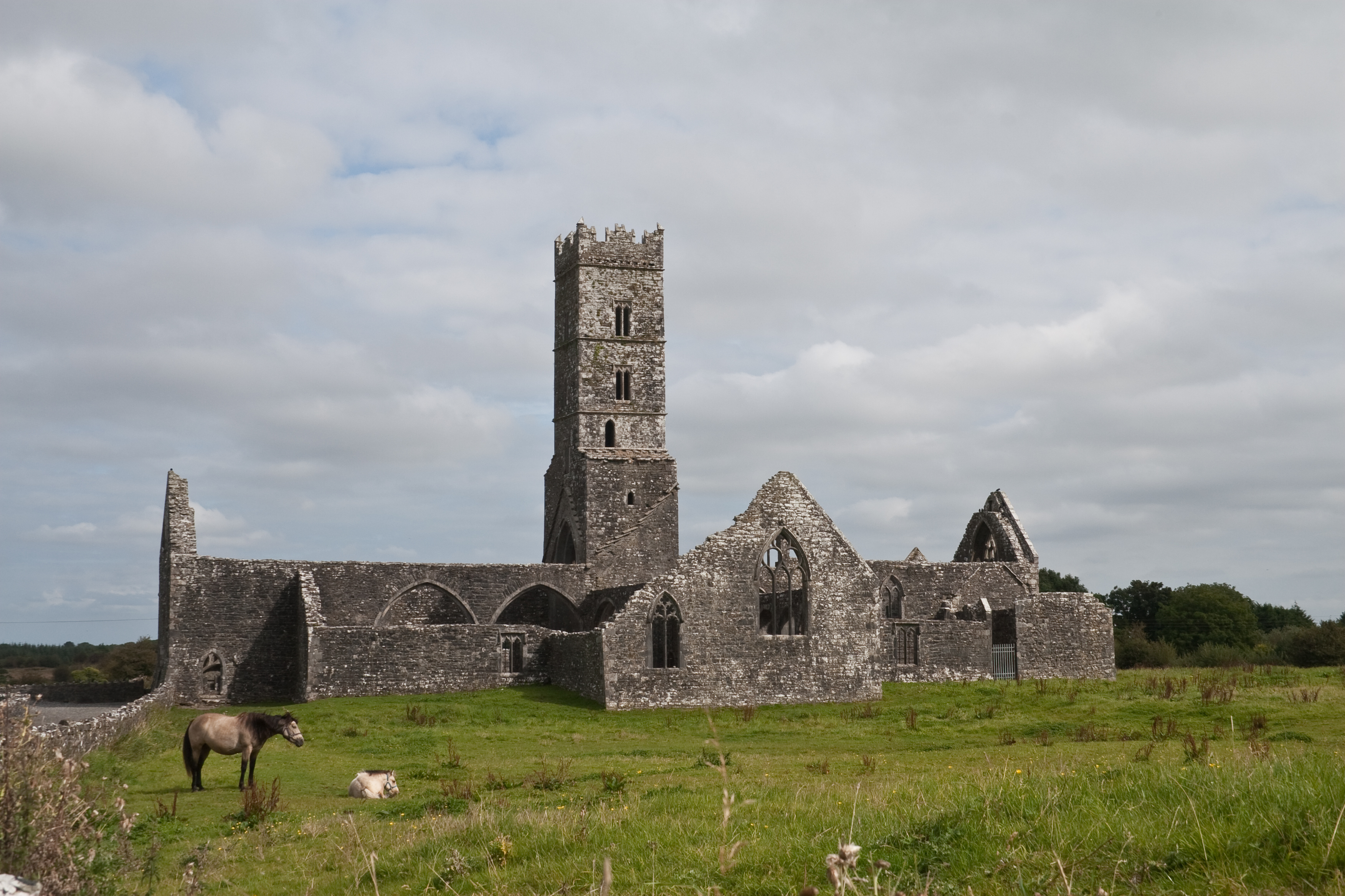 Kilconnell Friary, County Galway, Ireland South range of Kilconnell Friary. From left to right: nave, south aisle of nave, south transept along with its west transept in front of the tower that divides nave and choir, side chapel of the south transept in front of the choir, sacristy. (The gate at the right side bars the passage between the side chapel and the sacristy.)